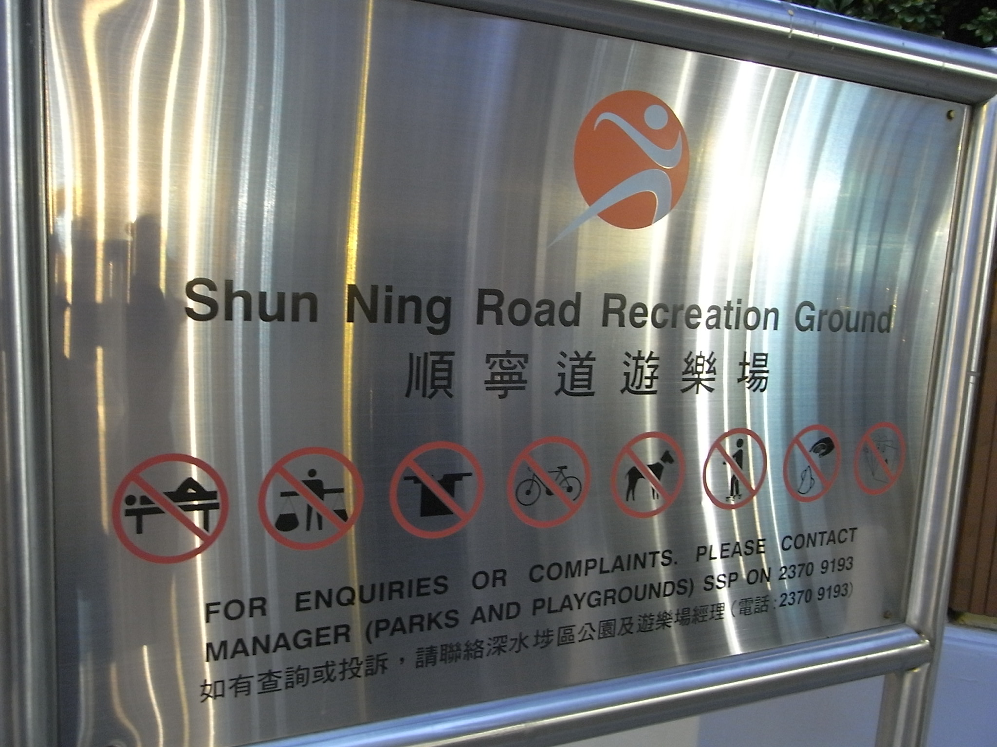 深水埗 康文署 順寧街遊樂場